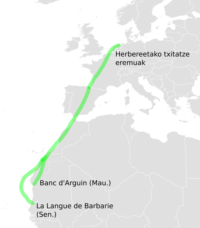 Post-nuptial migration of Eurasian spoonbills (Platalea leucorodia) that cross the Basque Country